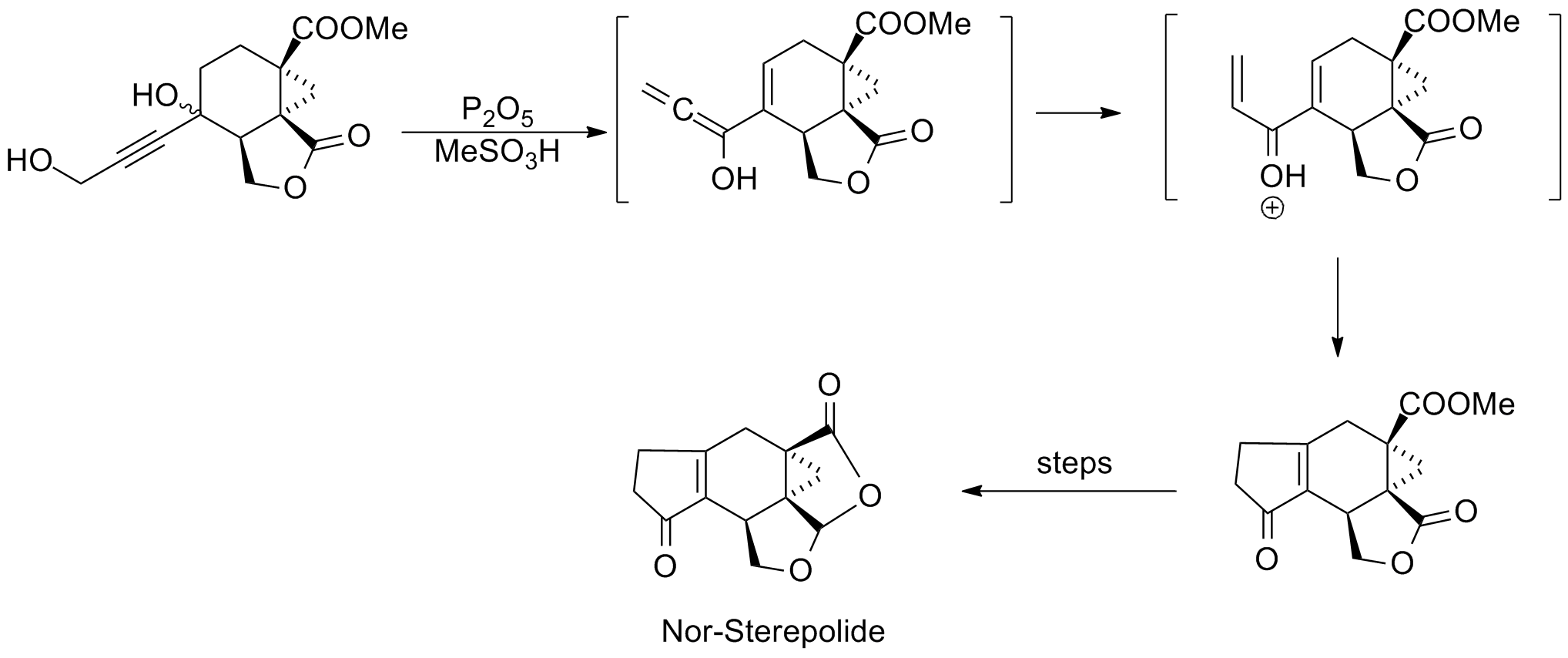 synthesis of Nor Stereopolide